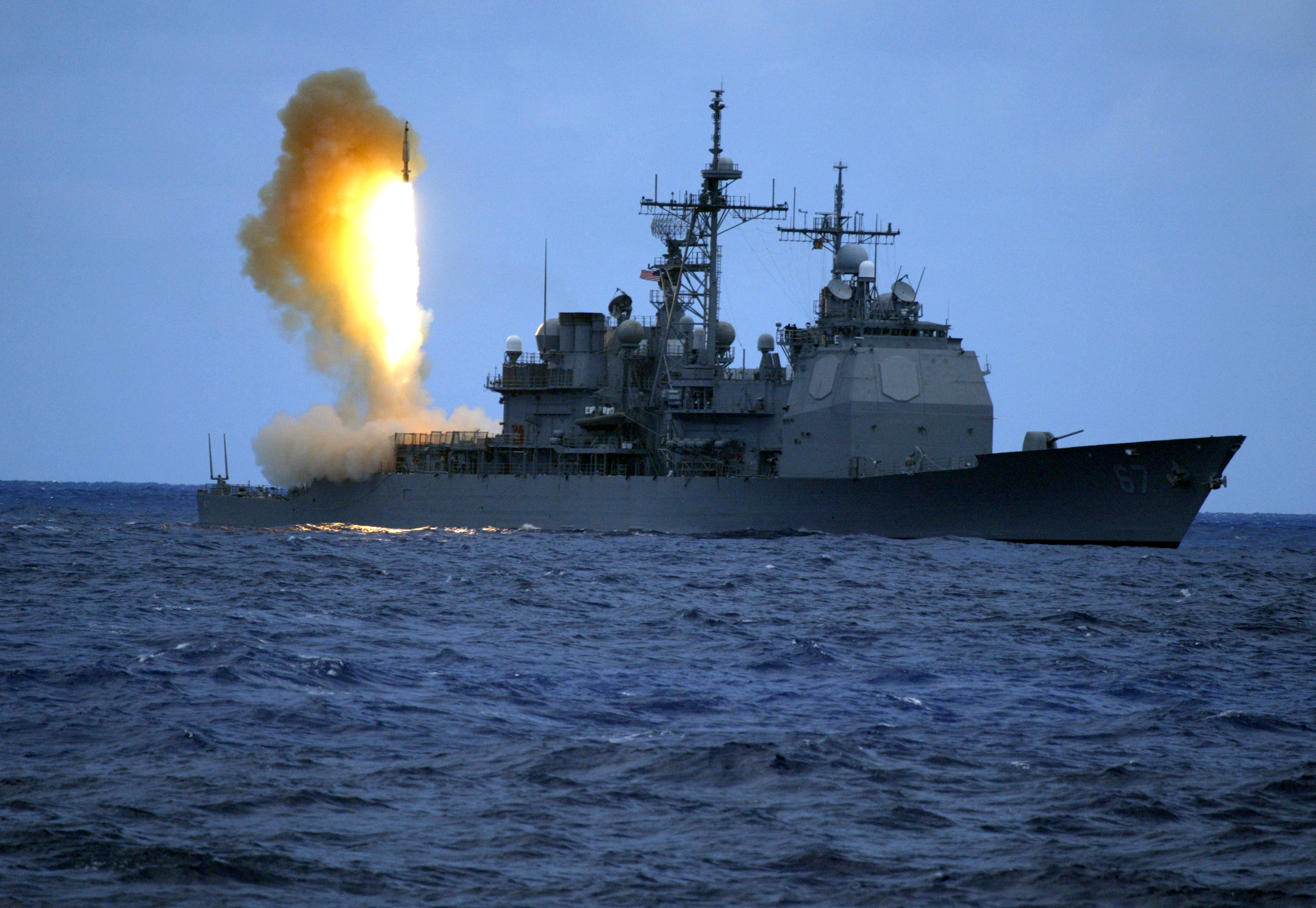 "060622-N-0000X-001 Pacific Ocean (June 22, 2006) - A Standard Missile Three (SM-3) is launched from the guided missile cruiser USS Shiloh (CG 67) during a joint Missile Defense Agency, U.S. Navy ballistic missile flight test. Two minutes later, the SM-3 intercepted a separating ballistic missile threat target, launched from the Pacific Missile Range Facility, Barking Sands, Kauai, Hawaii. The test was the seventh intercept, in eight program flight tests, by the Aegis Ballistic Missile Defense. The maritime capability is designed to intercept short to medium-range ballistic missile threats in the midcourse phase of flight."